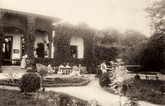 Aivazovsky’s Shakh-Mamai estate. 1890s Photograph. Department of Manuscripts, Tretyakov Gallery